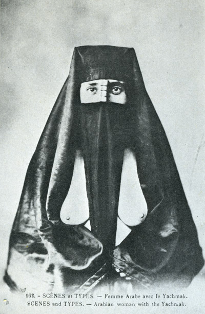 Orientalist depictions of Arab females wearing a hijab while exposing their breasts.